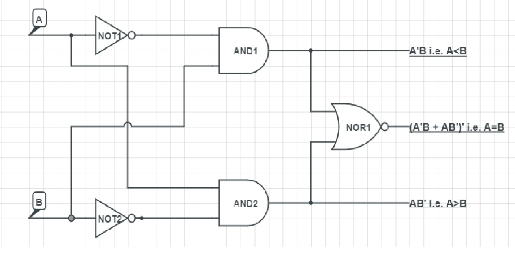 One-bit binary full comparator, equality, inequality, greater than, less than at gate level. Created using CircuitLab